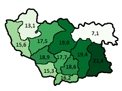 Literacy rate in counties of Volhynia Governorate, 1897 census